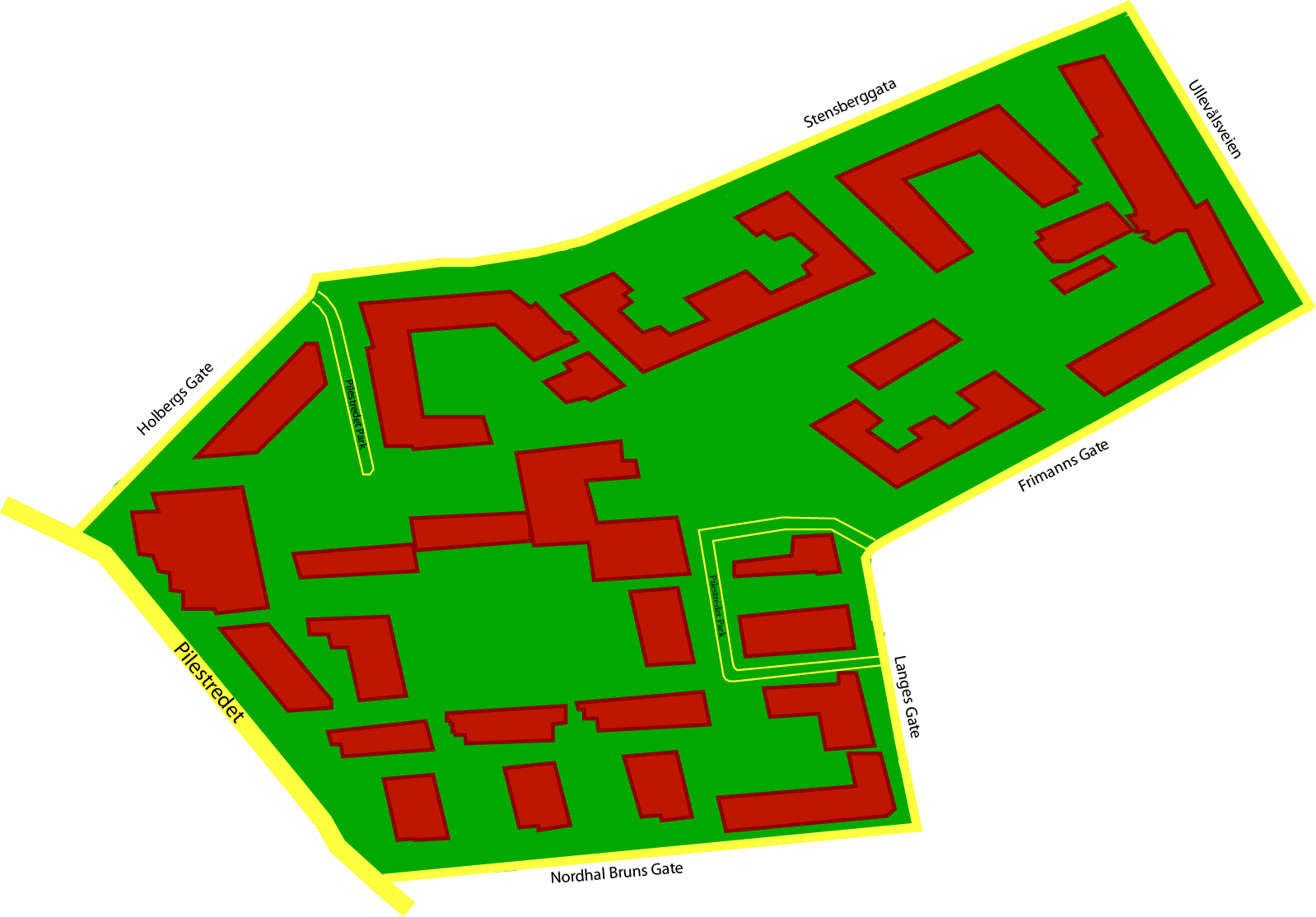 A simple map of Pilestredet Park in Oslo, Norway, and the main streets that surround it.